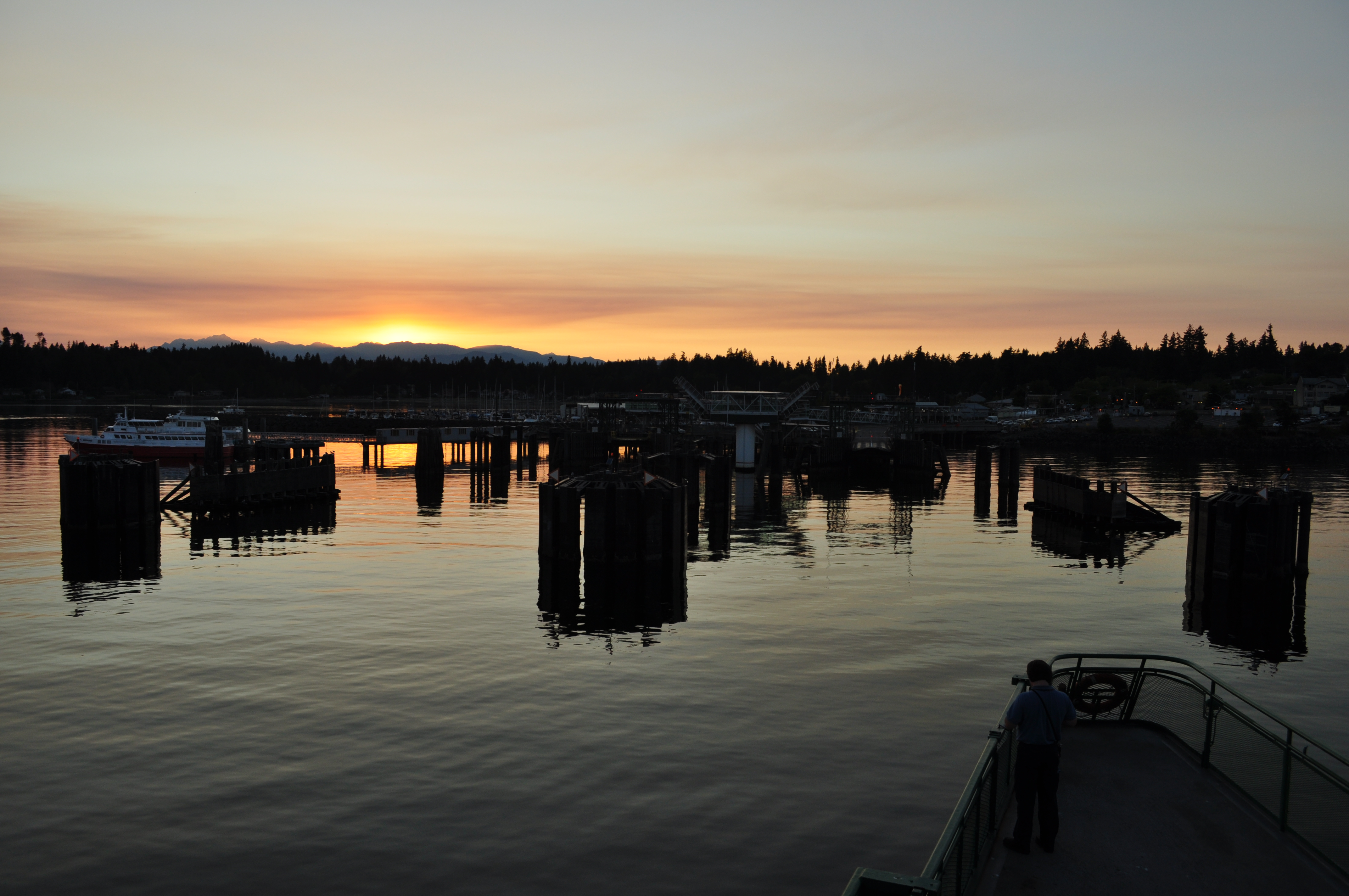 Kingston, Washington ferry dock at sunset.